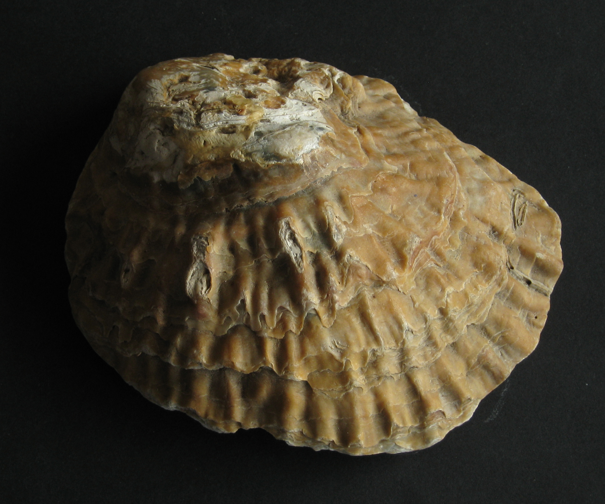 Ostrea edulis - Oyster